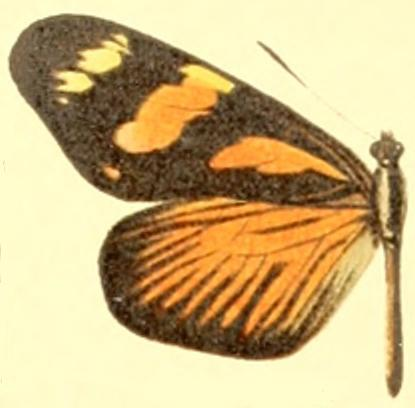 Plate from The Macrolepidoptera of the World. Vol. 5. Pieridae Dismorphiinae: Dismorphia melia